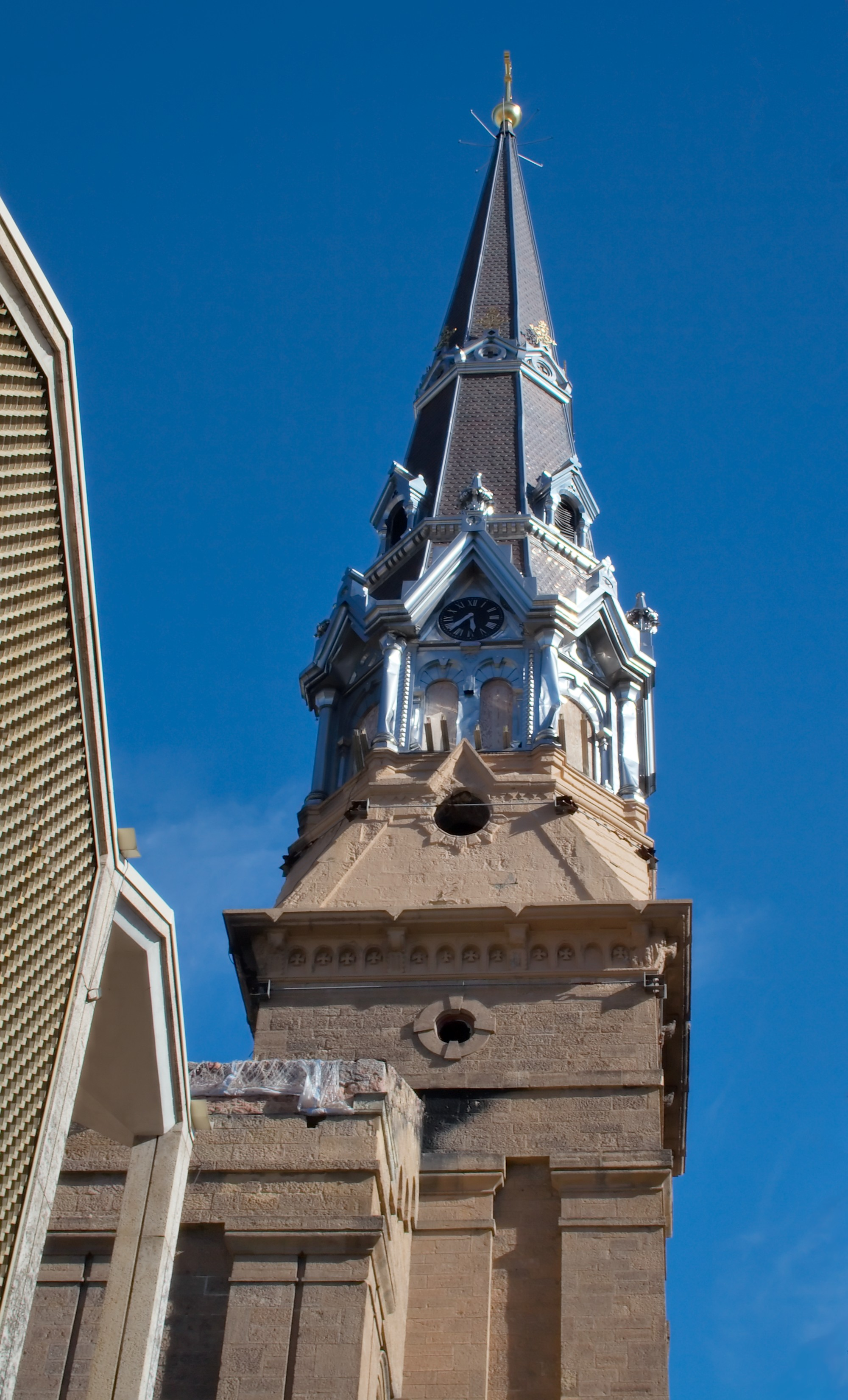 Taken in Madison, Wisconsin